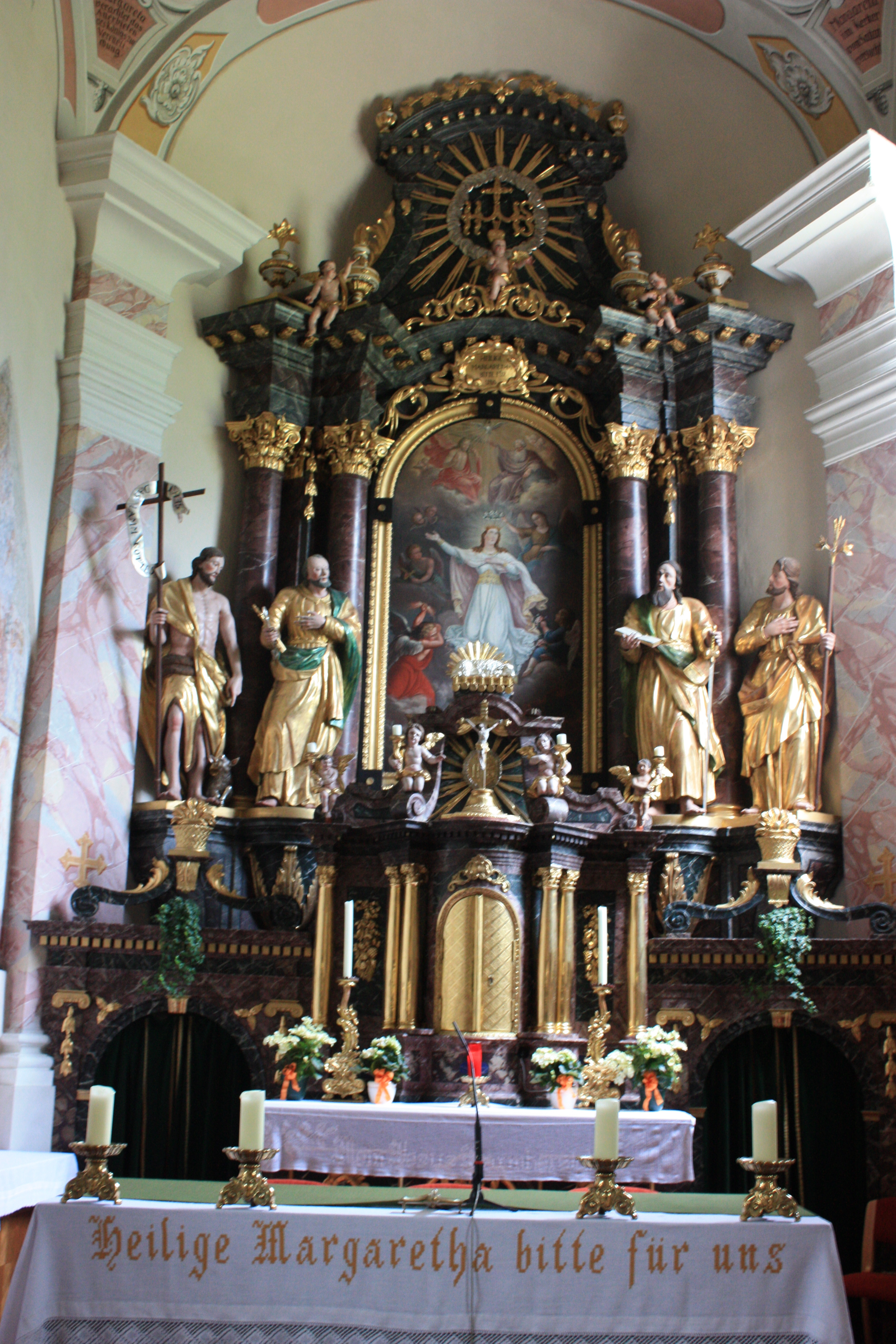 Parish church Saint Margareta: Main altar; Locality:Dellach; Community:Dellach im Drautal